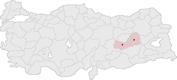 Location of the cities and provinces of Elazığ and Bingöl in Turkey